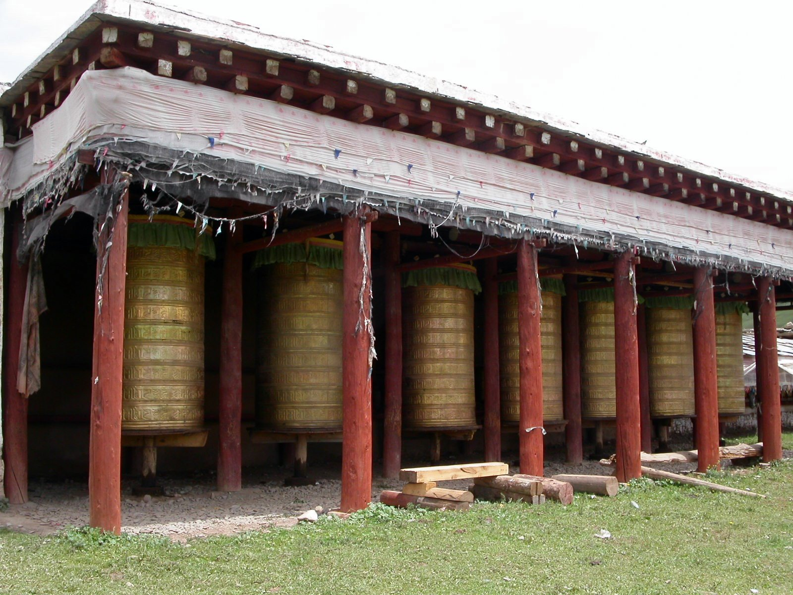 Zhuanjingtong(prayer wheel), Huiyuan Temple, Ganzi, Sichuan, China